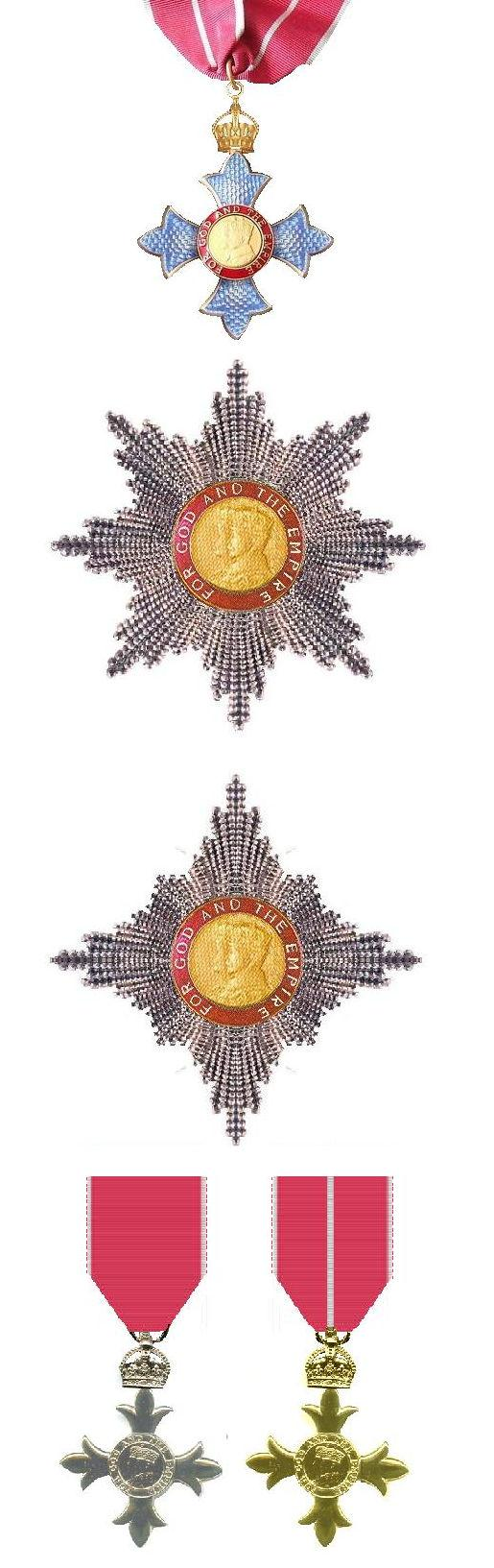 Order of the British Empire